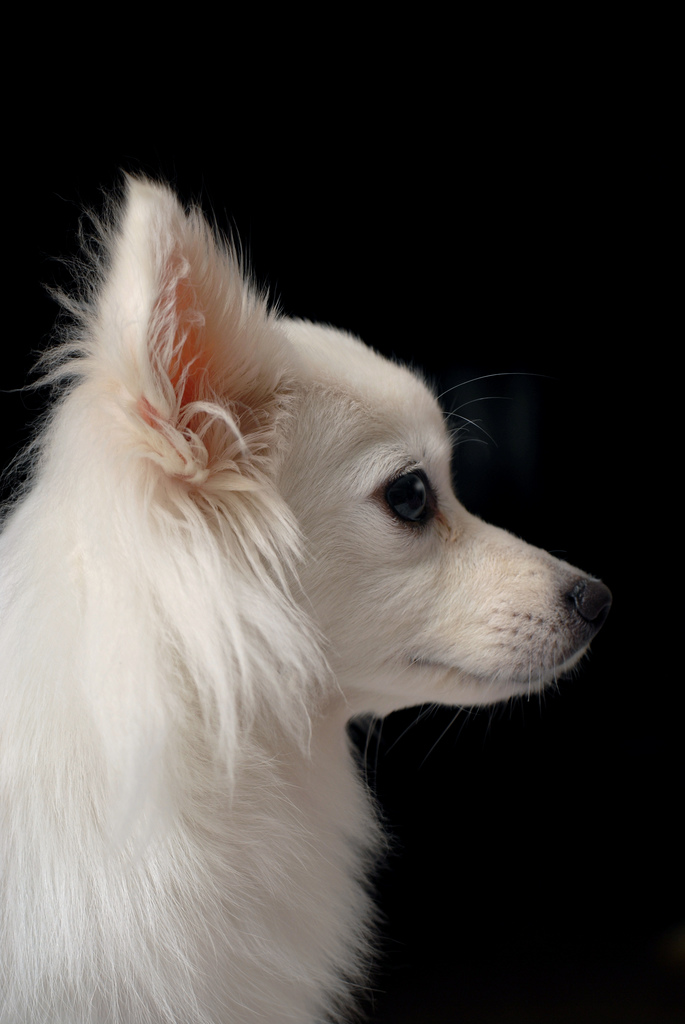 This Doggie is my sweetie~ 'Pyon-Ta' (Japanese Spitz)